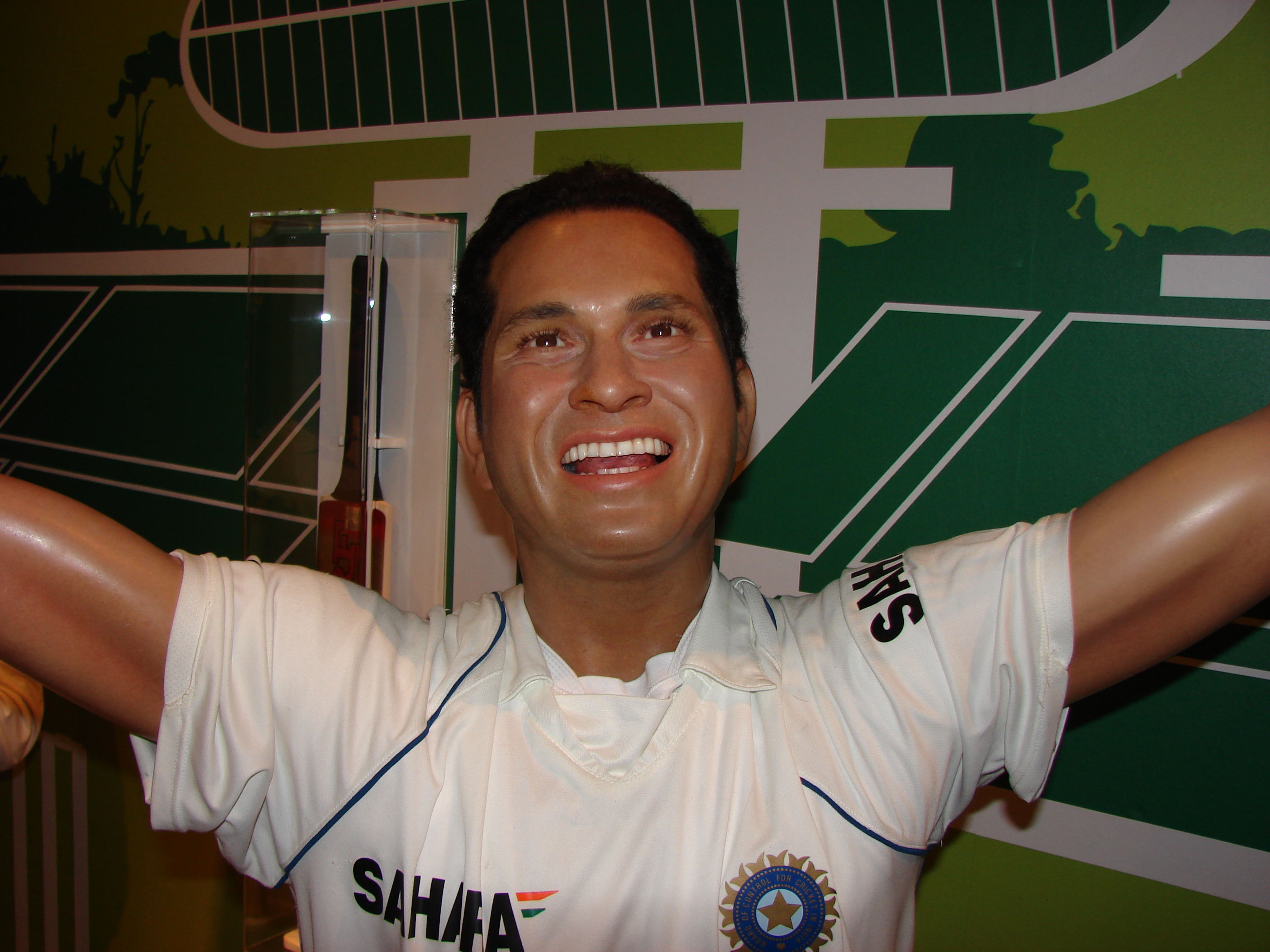 Sachin Ramesh Tendulkar Wax Statue in Madame Tussauds London